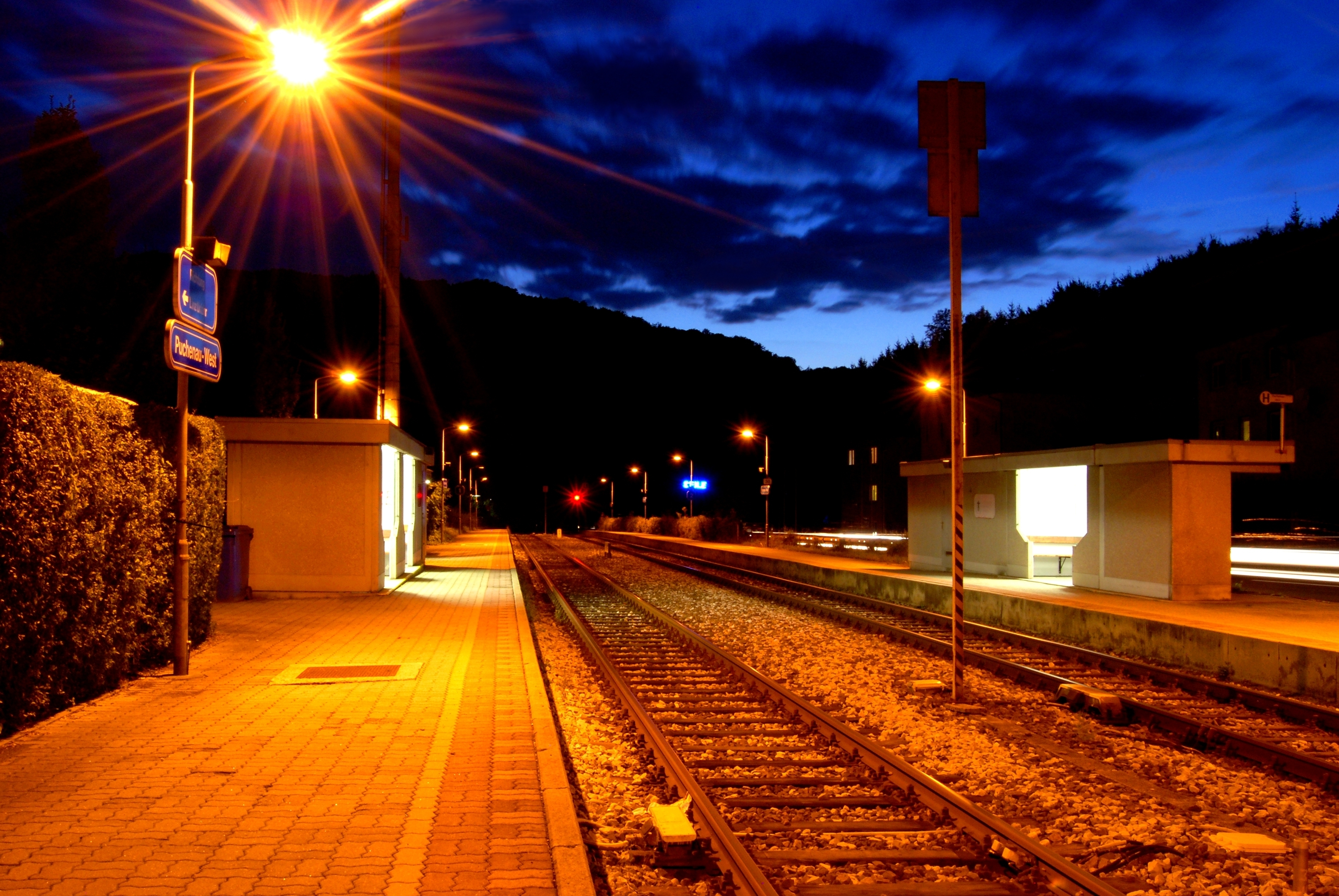 Railway station Puchenau-West, the most important station in Puchenau, Upper Austria, taken in the evening